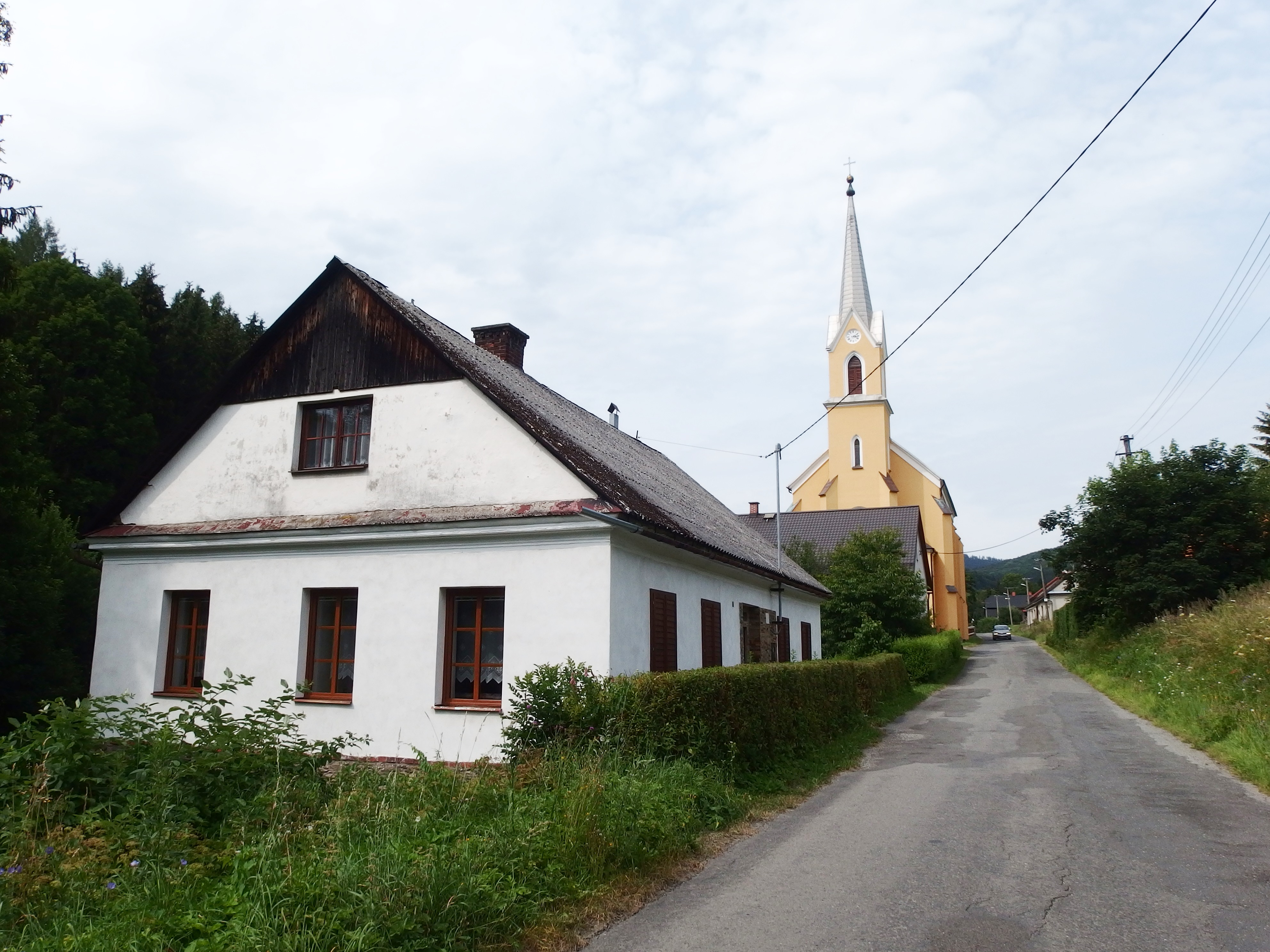 Oskava, Šumperk District, Czechia, part Bedřichov. Church of Saint Frederick.